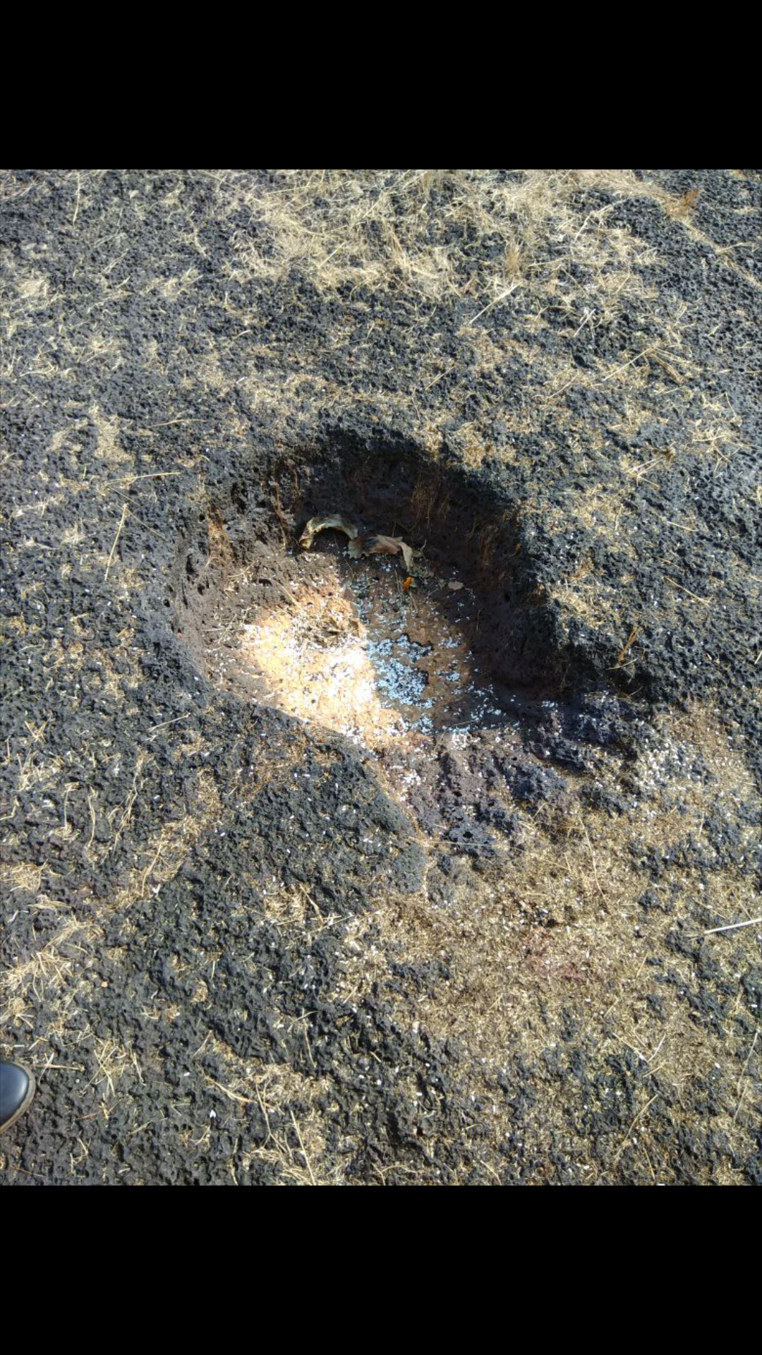 Aai Aryadurga, devihasol. Rjapur